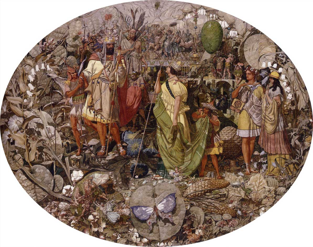 Contradiction: Oberon and Titania